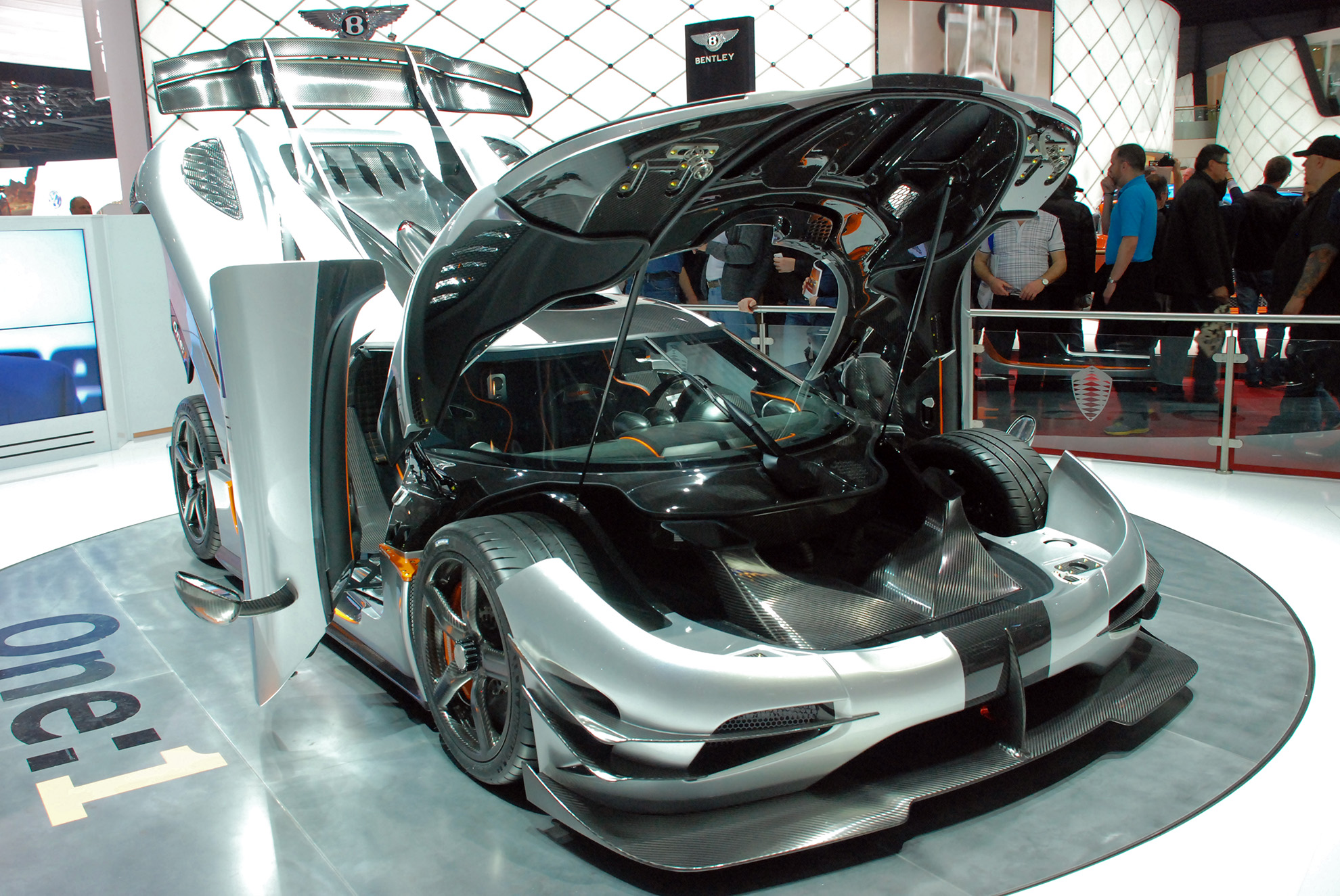 The Koenigsegg One:1 at the 2014 Geneva motorshow.